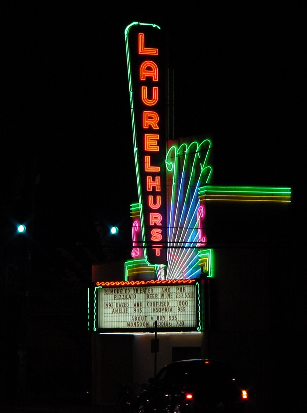 The neon sign of the Laurelhurst Theater, in Portland, Oregon.